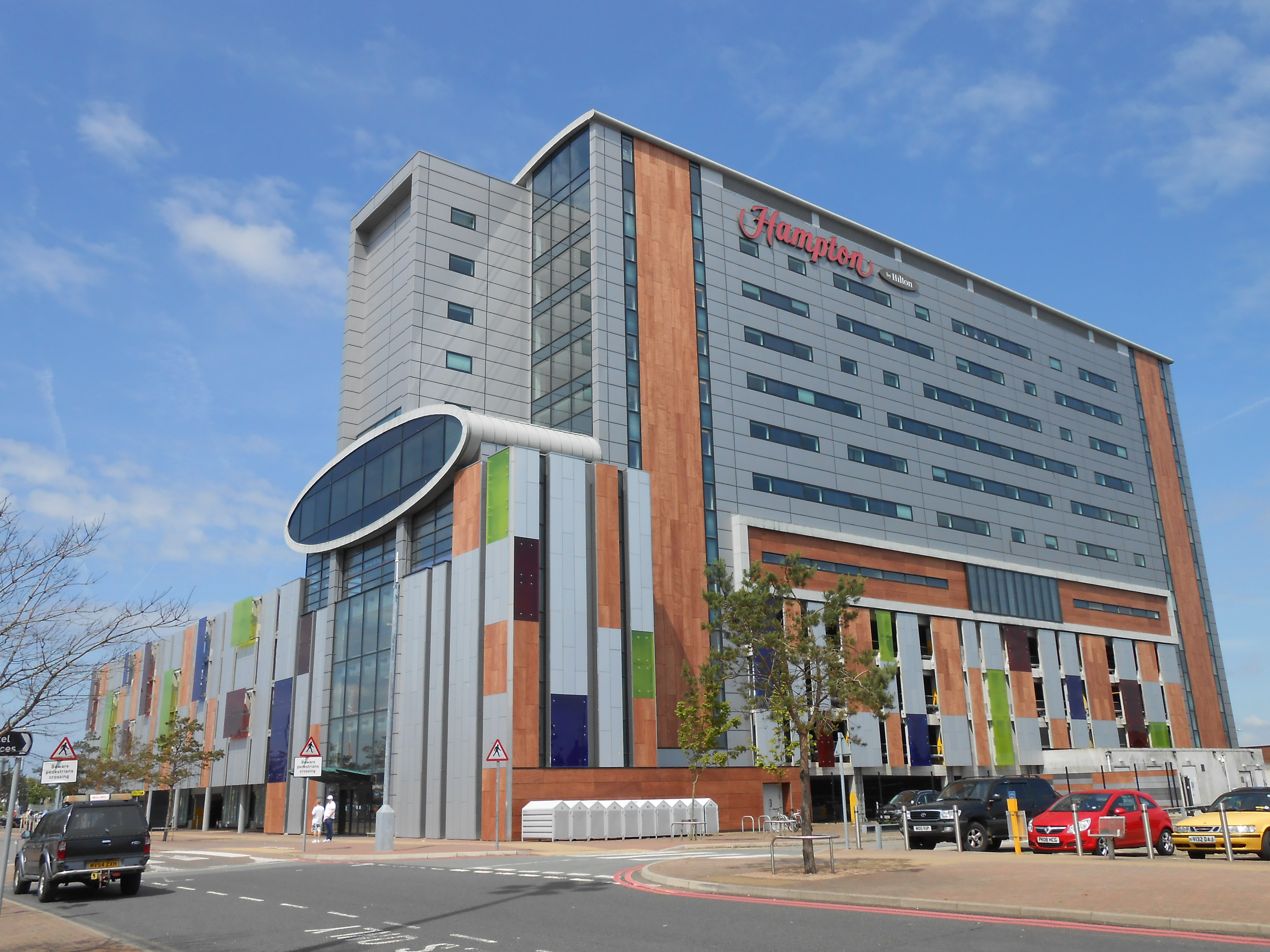 Hampton by Hilton hotel opposite Liverpool John Lennon Airport.